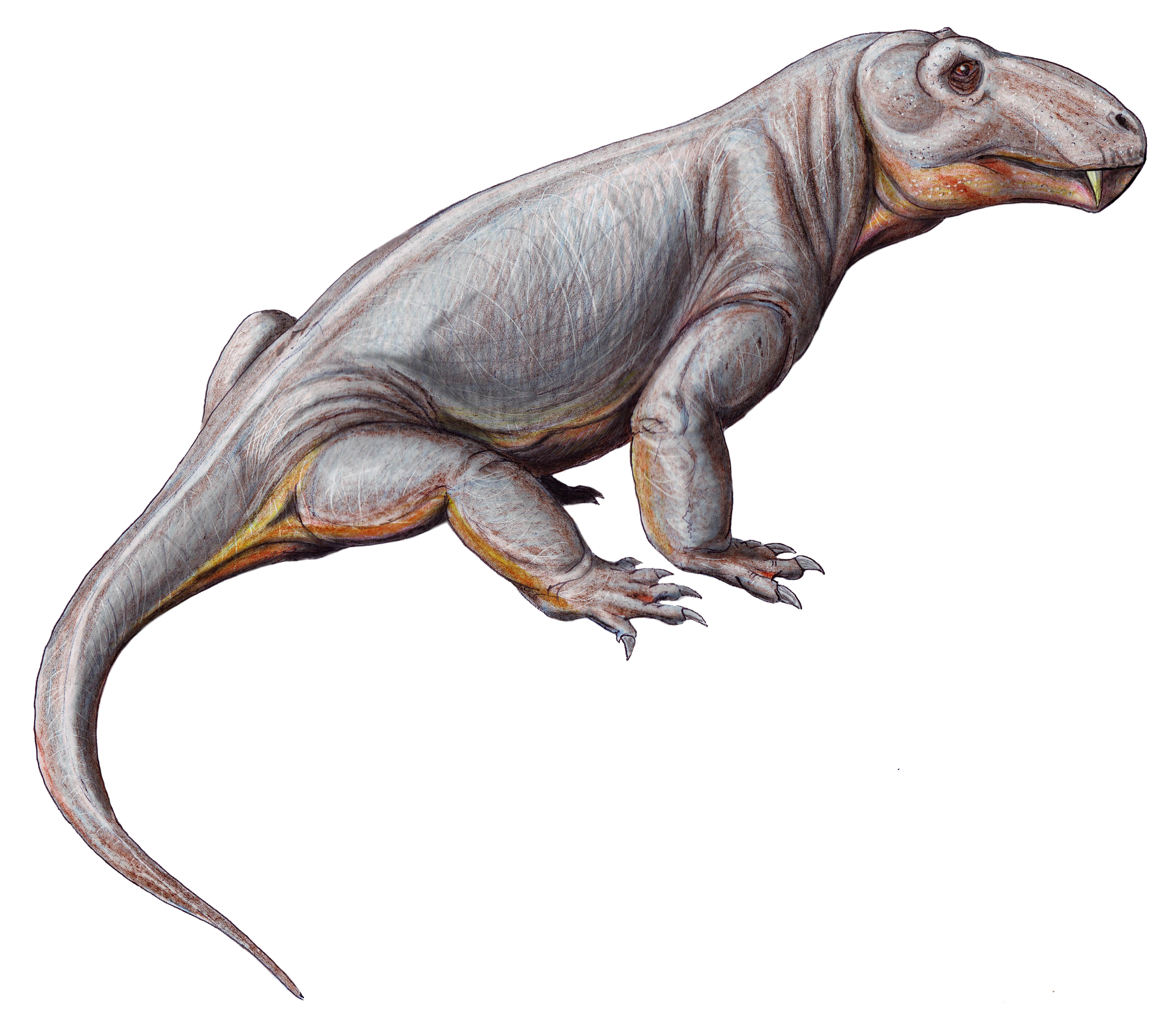 Sinophoneus yumenensis